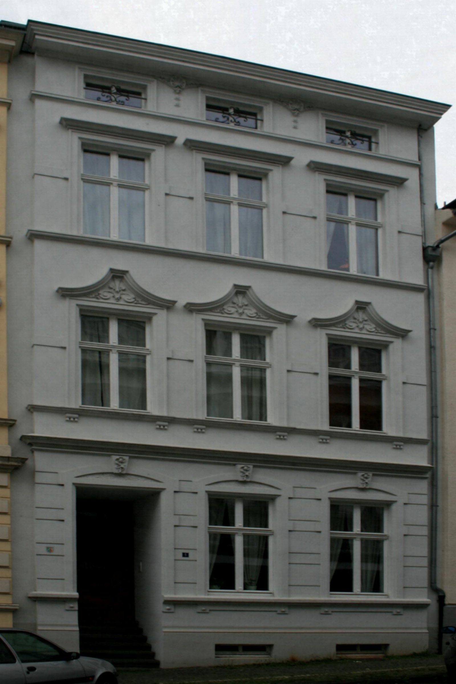 Cultural heritage monument No. A 001 in Mönchengladbach